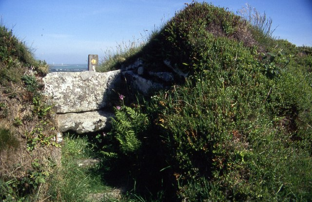 Stile on road between Watergate and Tresinney. The path beyond the stile, leads through fields down to the church at Advent.